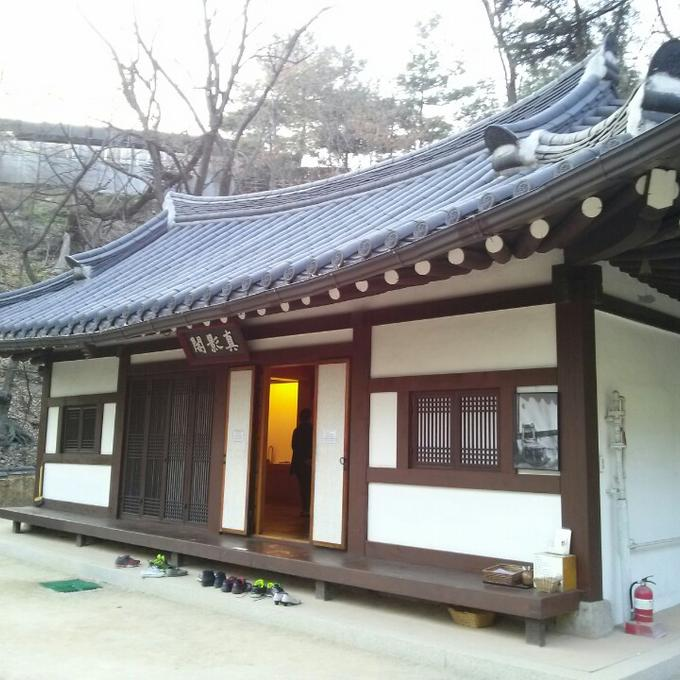 Monk Beopjeong's Portrait Hall(Gil sang-sa Temple, Seong-buk, Seoul)